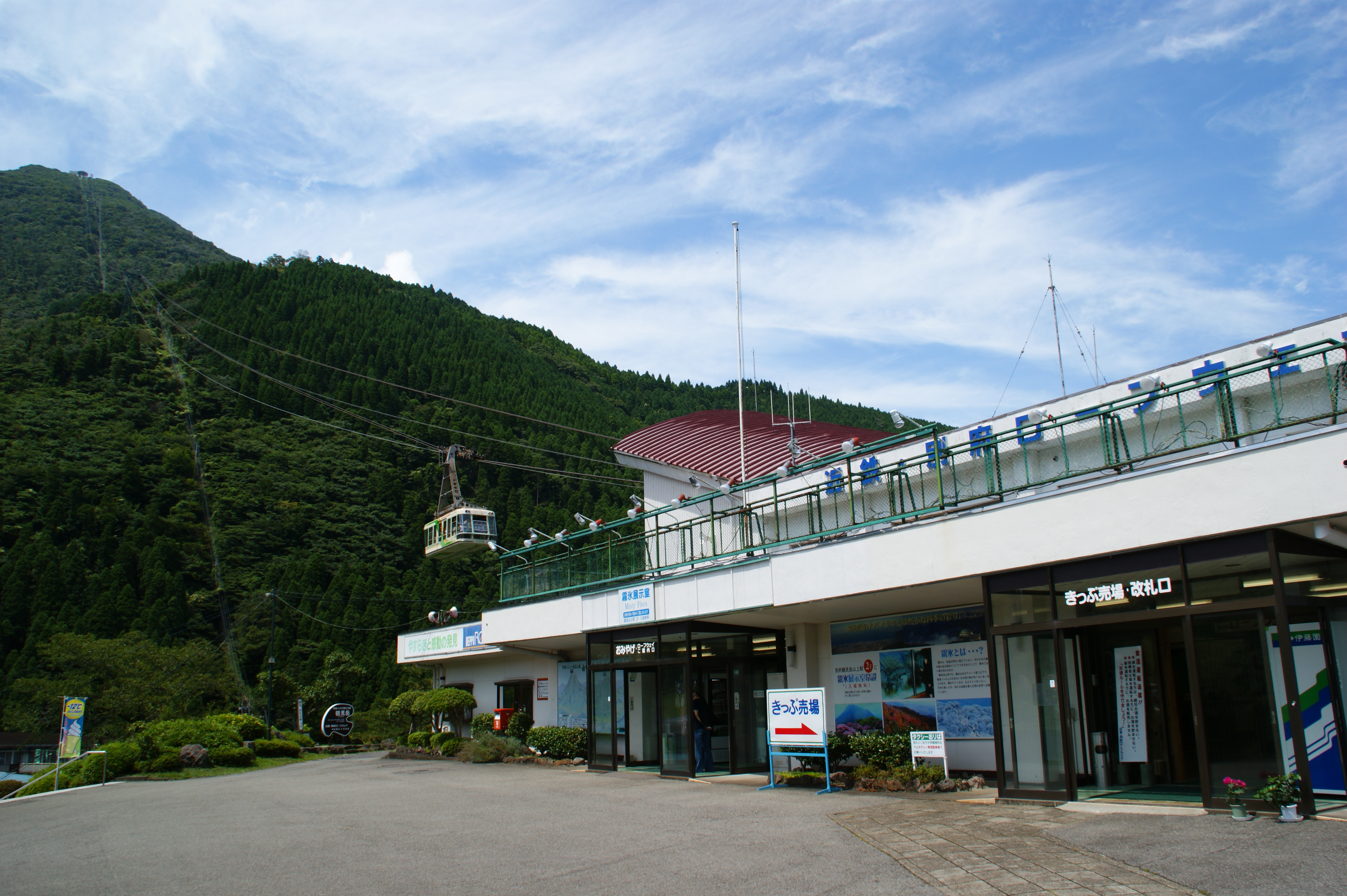 Beppu Ropeway in Beppu City, Oita Prefecture, Japan